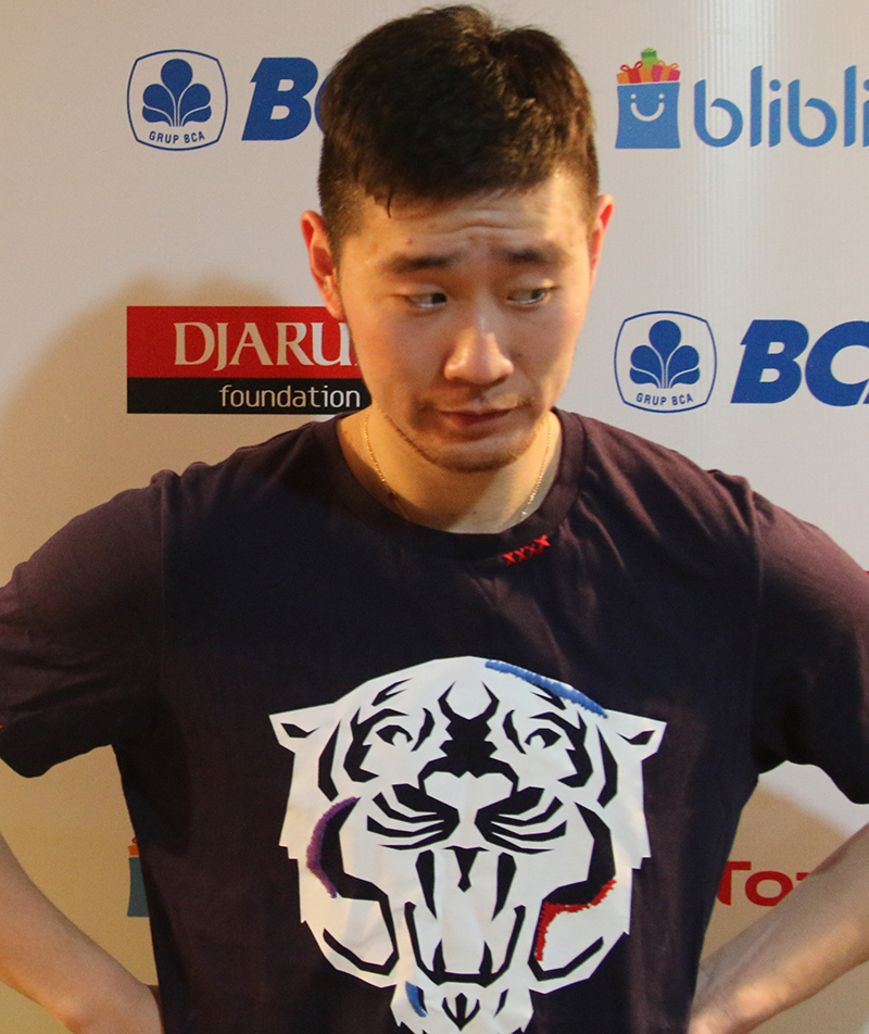 Liu Cheng at Indonesia Open 2017 badminton tournament